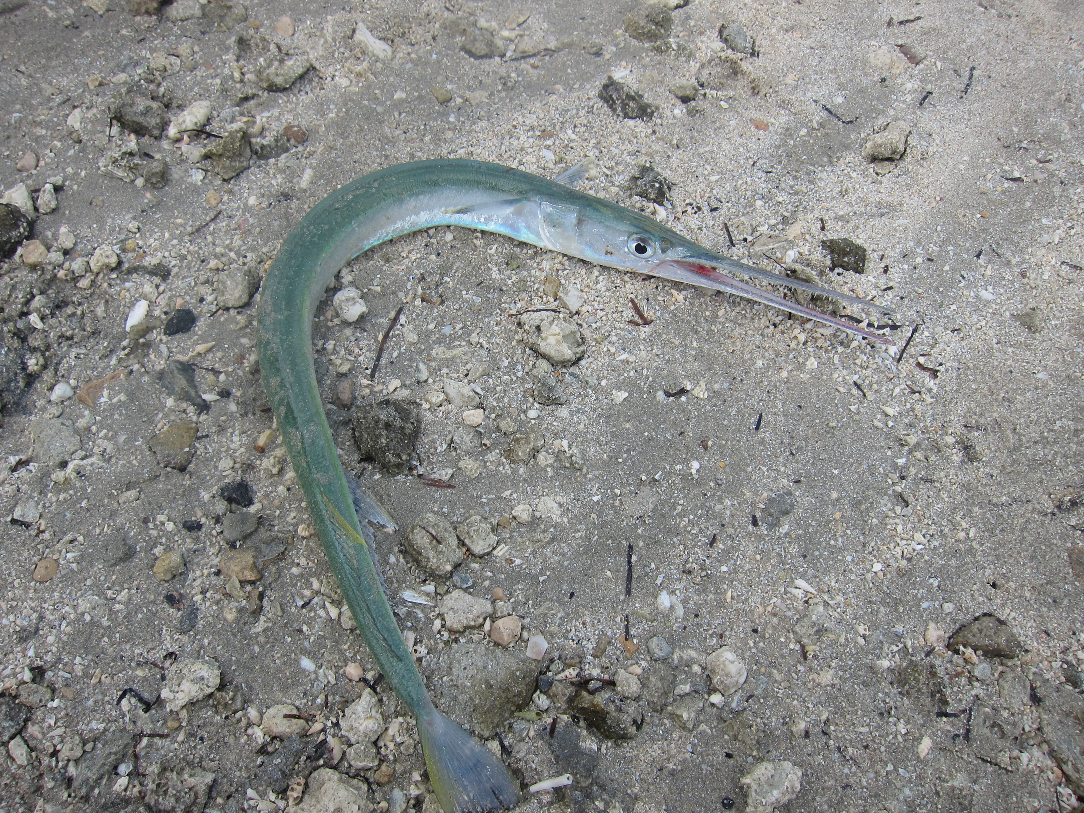 Rhynchorhamphus georgii - കൊയല സൗദിയുടെ അൽ കോബാറിൽ (പേർഷ്യൻ ഗൾഫിൽ) കടലിൽ നിന്നാണ് ഈ കൊയലയെ ലഭിച്ചത്. കൂട്ടമായാണ് സഞ്ചാരം... ചുണ്ടിൽ നിറയെ മുള്ളുകൾ ഉള്ളതിനാൽ ചൂണ്ടയിൽ പെട്ടെന്ന് തന്നെ കൊളുത്തി കിട്ടും... Poo-kole, പൂകോലെ, കൊമ്പൻ, Komban, കൊയാല, പൂക്കോള് കോലാൻ മത്സ്യത്തോട് സാദൃശ്യമുള്ള ഒരു കടൽ മീനാണ് കൊയല (long-billed halfbeak). ശാസ്ത്രനാമം: Rhynchorhamphus georgii. ഉപ്പുവെള്ളമുള്ള കായൽ പ്രദേശങ്ങളിലും ഇതിനെ കാണുന്നു...